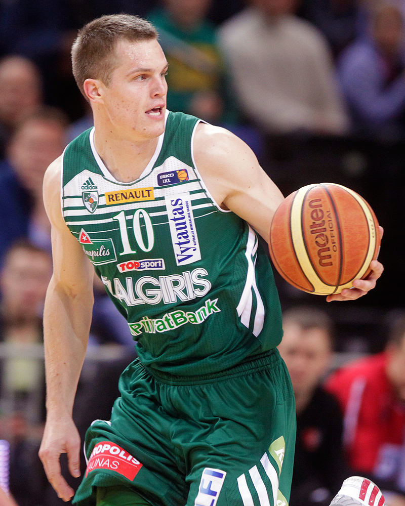 Lithuanian basketball player Vytenis Lipkevicius